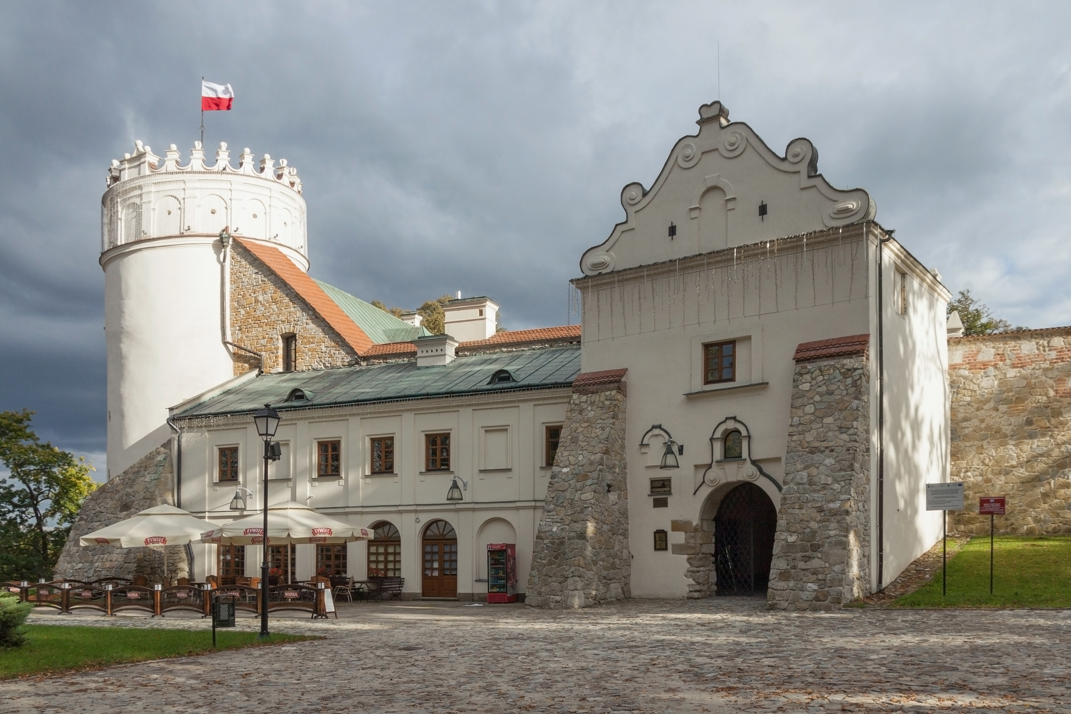 The northern wing of the Przemyśl Castle. Przemyśl, Subcarpathian Voivodeship, Poland.